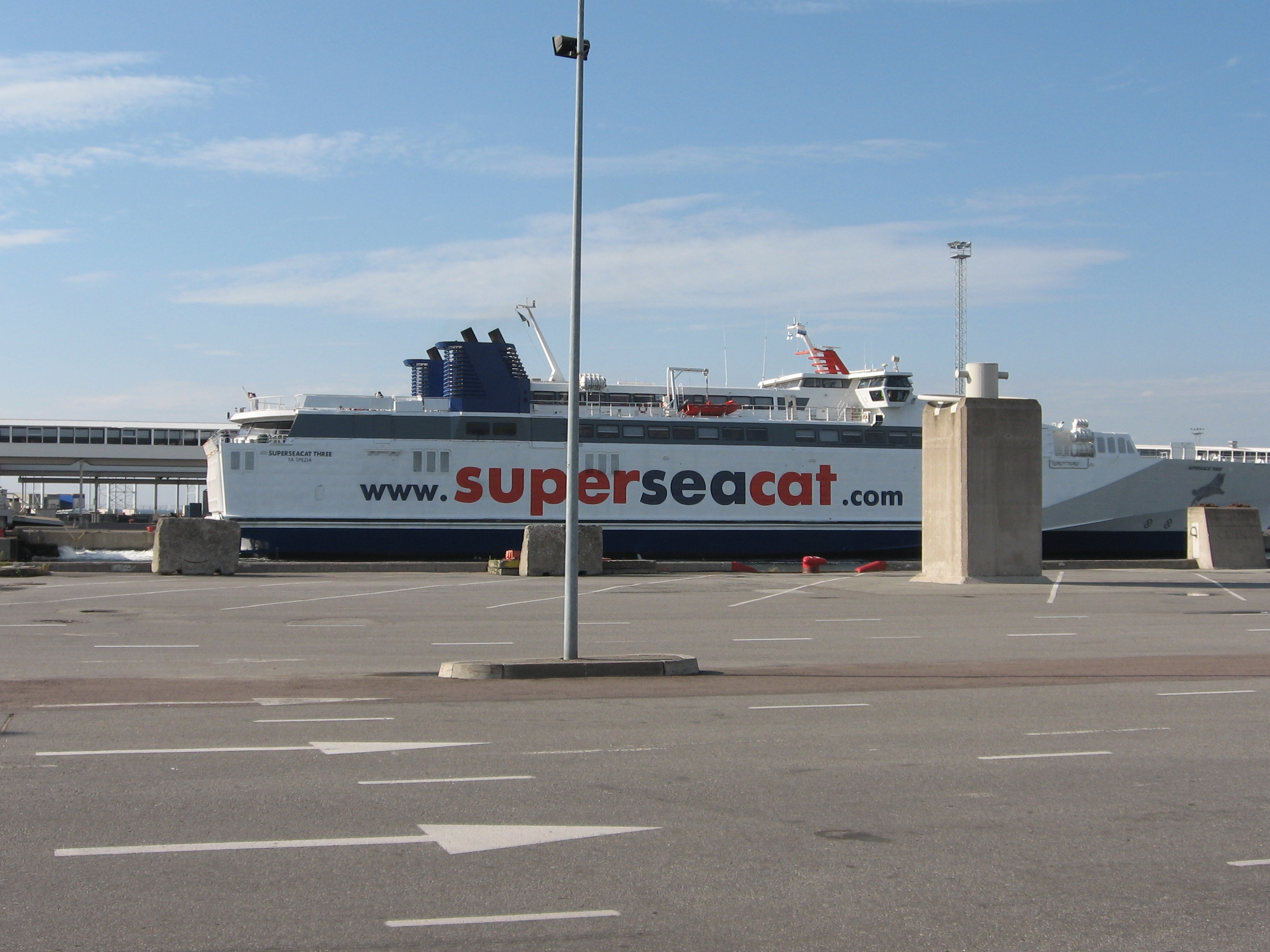 Superseacat Three in Tallinn IMO Number: 9141871 MMSI Number: 247352000 Callsign: IBGH Length: 100 m Beam: 17 m